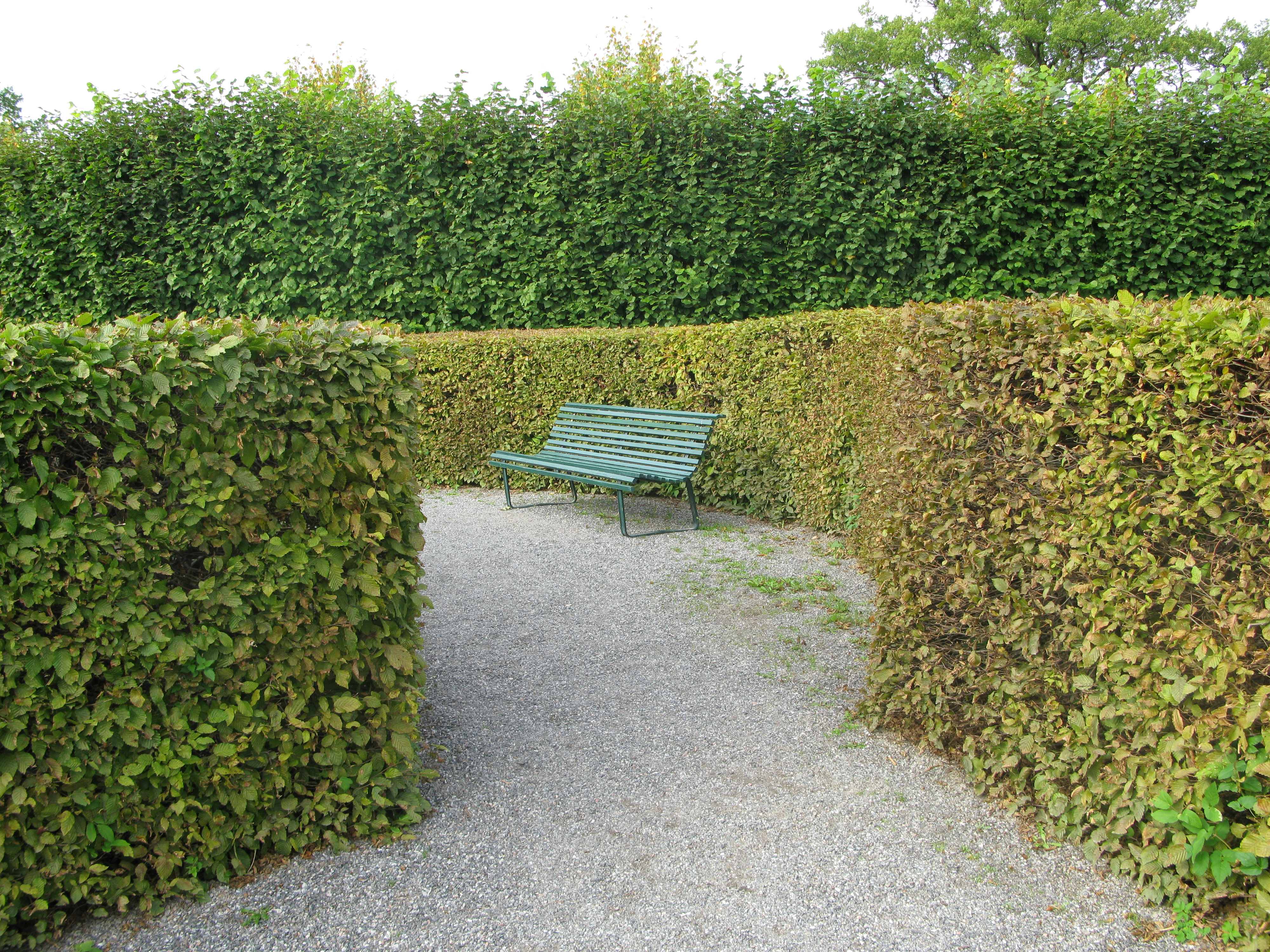 A park bench in Drottningholm Palace park outside Stockholm, Sweden